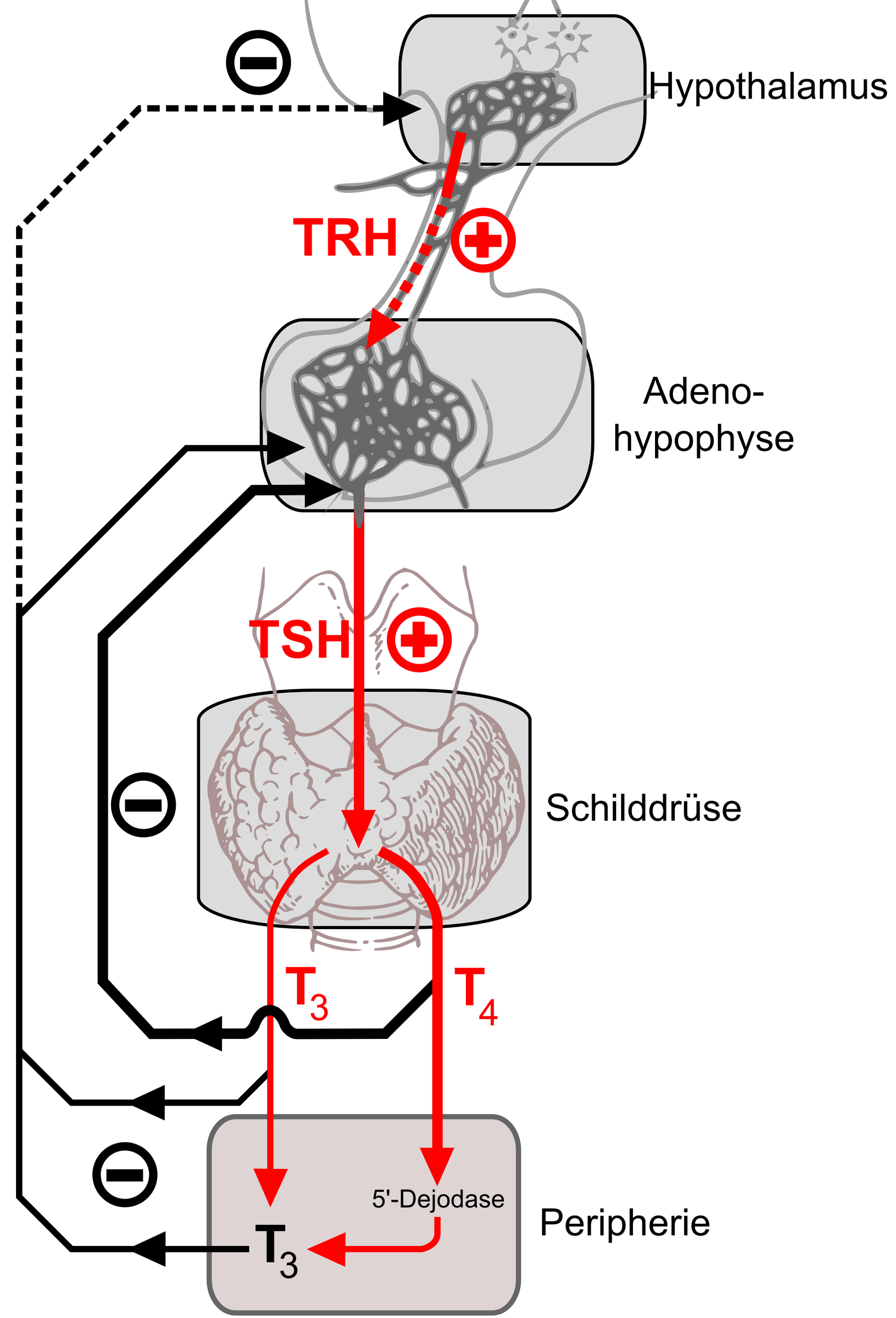 The hormone feedback of the thyroid.